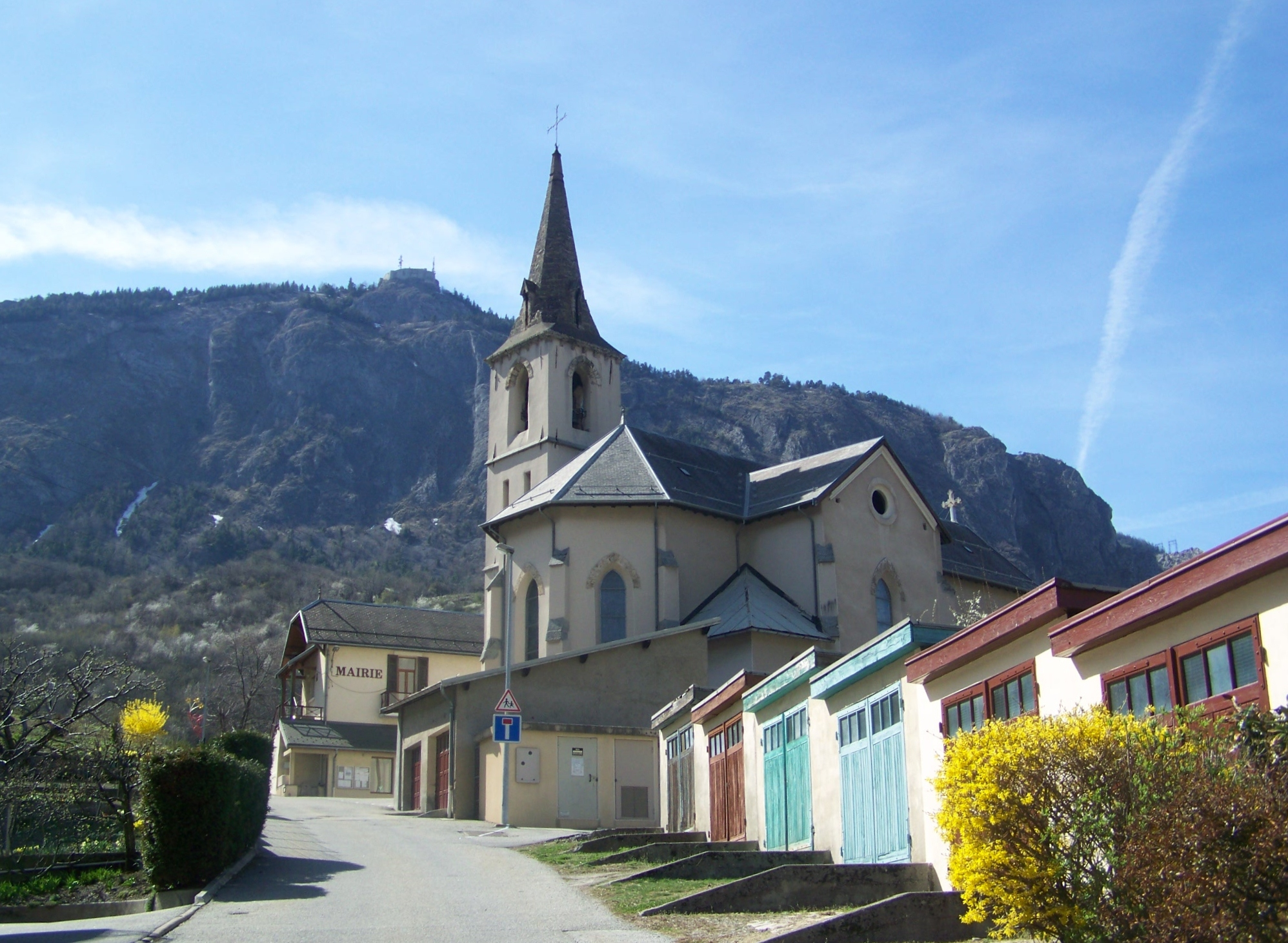 Church and city hall of the French commune of Saint-Martin-d'Arc in the Maurienne valley, Savoie.